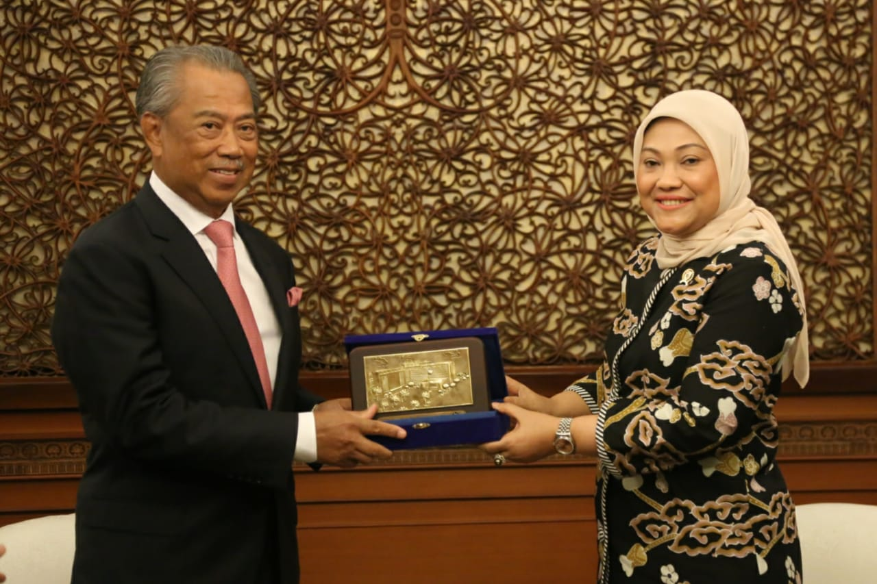 Jakarta - The Government of Indonesia and the Government of Malaysia are committed to increasing the protection of Indonesian Migrant Workers (PMI) working in Malaysia. Both also committed to completing a number of PMI placement and protection procedures that have yet to be resolved. The commitment was conveyed by both parties when the Indonesian Minister of Manpower, Ida Fauziyah, received a visit from the Minister of Home Affairs of the Kingdom of Malaysia, Tan Sri Dato 'Hj. Muhyiddin bin Hj. Mohd. Yassin, at the Ministry of Manpower, Jakarta, Tuesday (10/12).